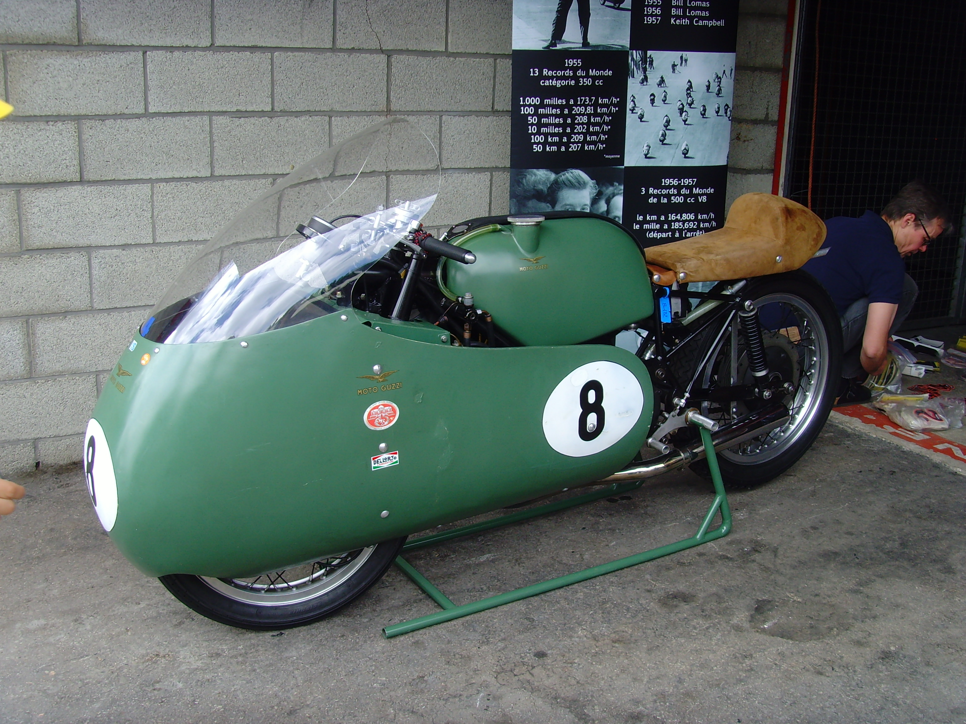 Moto Guzzi 350 Monocilindrica Corsa